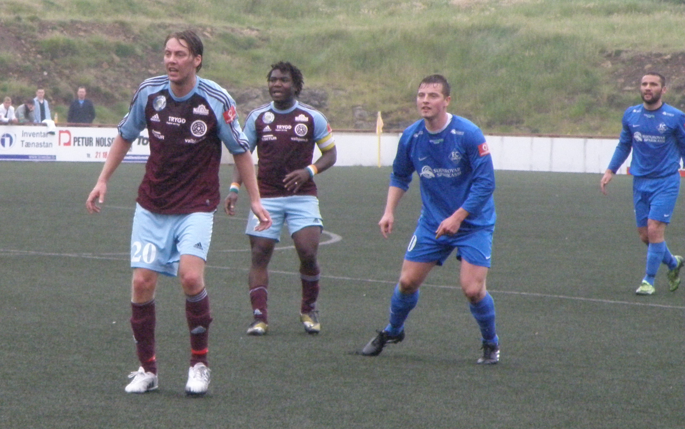 Match between FC Suðuroy (blue) and AB Argir (marron). Photo taken on 15 August 2010 on Eiðinum Stadium in Vágur, Suðuroy, Faroe Islands.